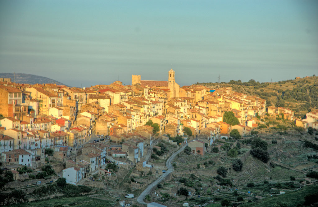 General view of Vilafranca (Castellón, Spain), made combining 3 shots with HDR technology.